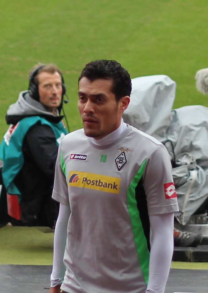 Juan Arango, football player for German side Borussia Mönchengladbach, 2011/12 season